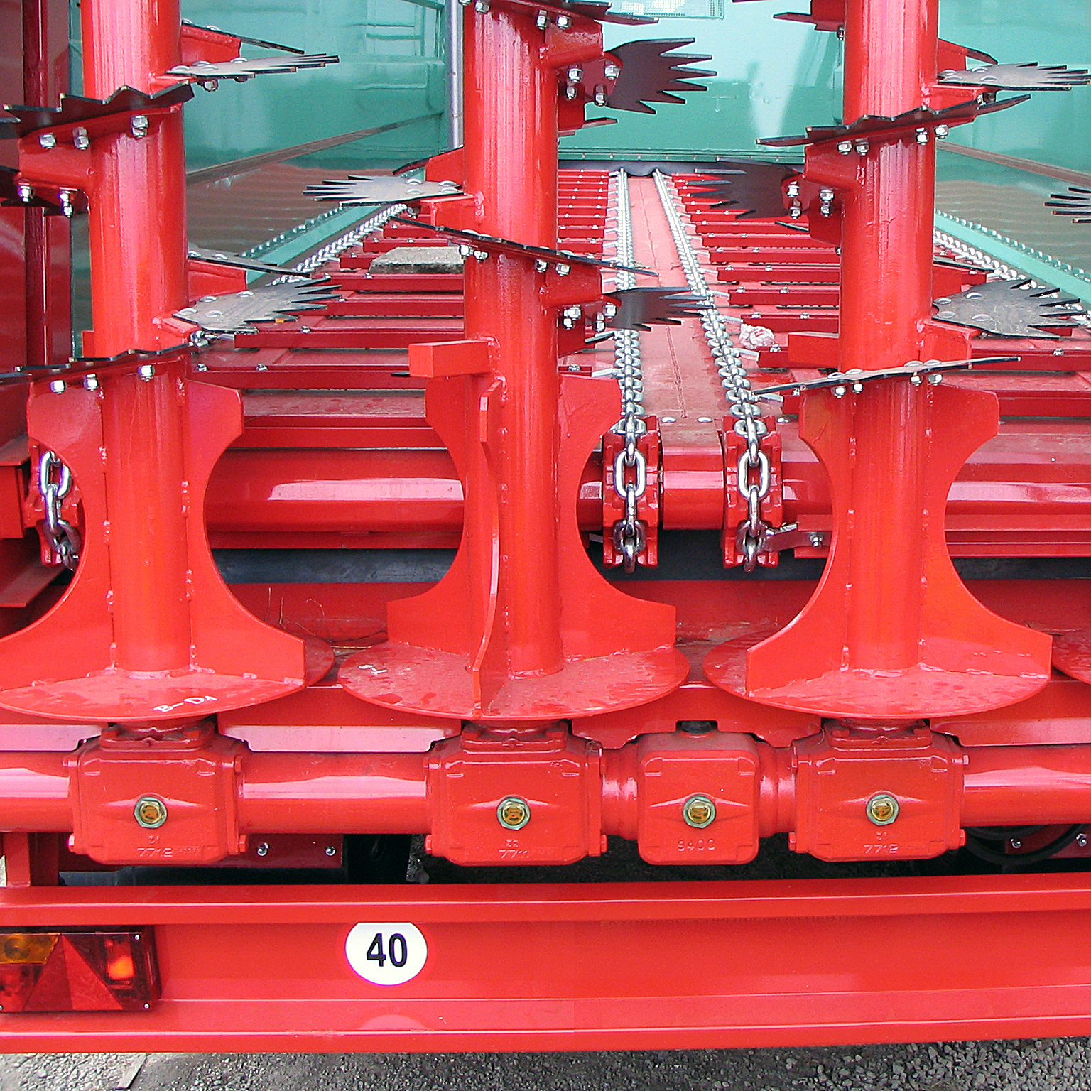 Manure spreader (detail)